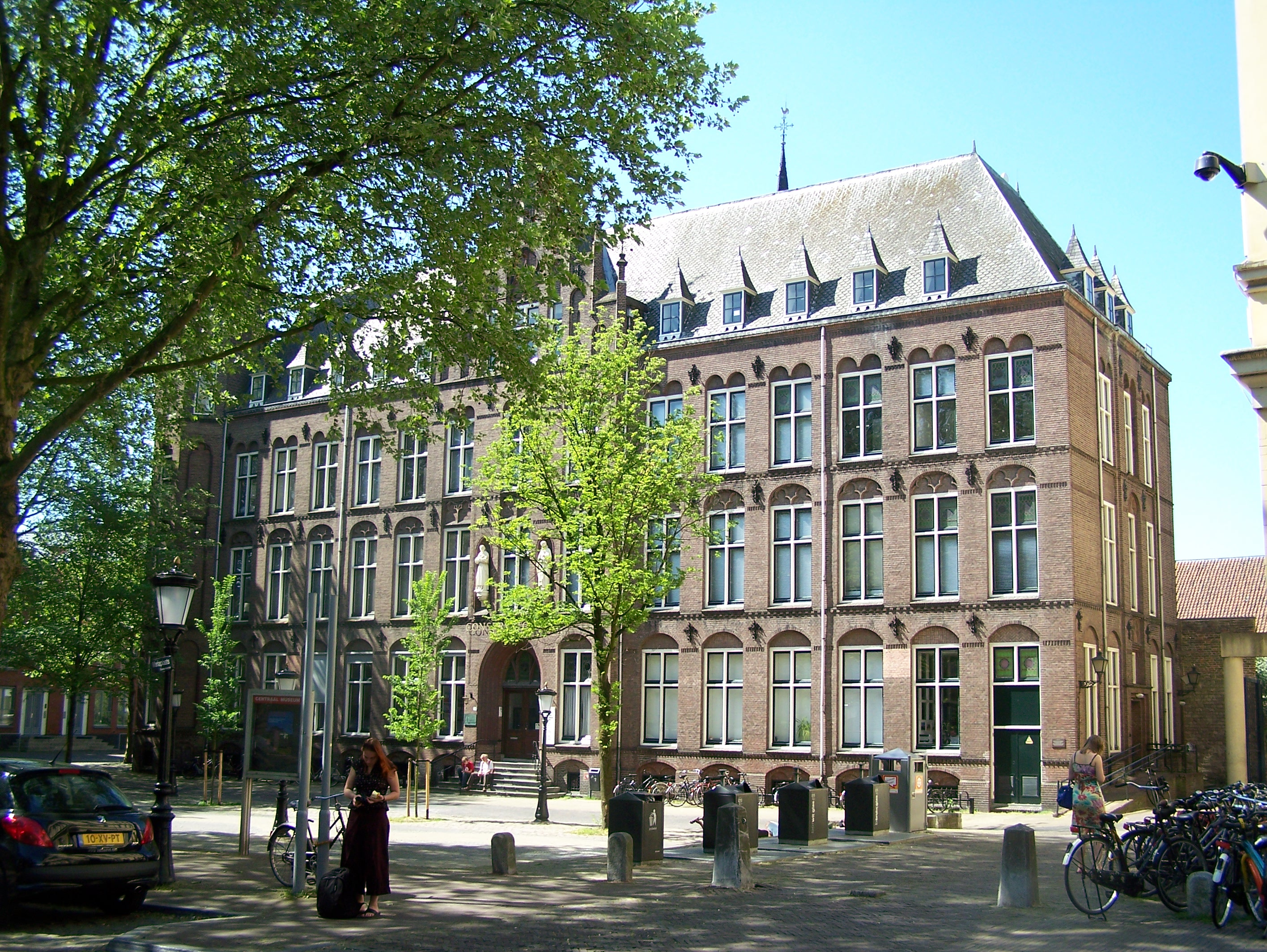 Former hospital building "St. Johannes de Deo", by architect J. van Kesteren in 1896. Since 1971 it's part of the conservatorium Utrecht. It's situated at Mariaplaats. Sculptures where made by Friedrich Wilhelm Mengelberg. The Stained glass windows where designed by Heinrich Geuer.